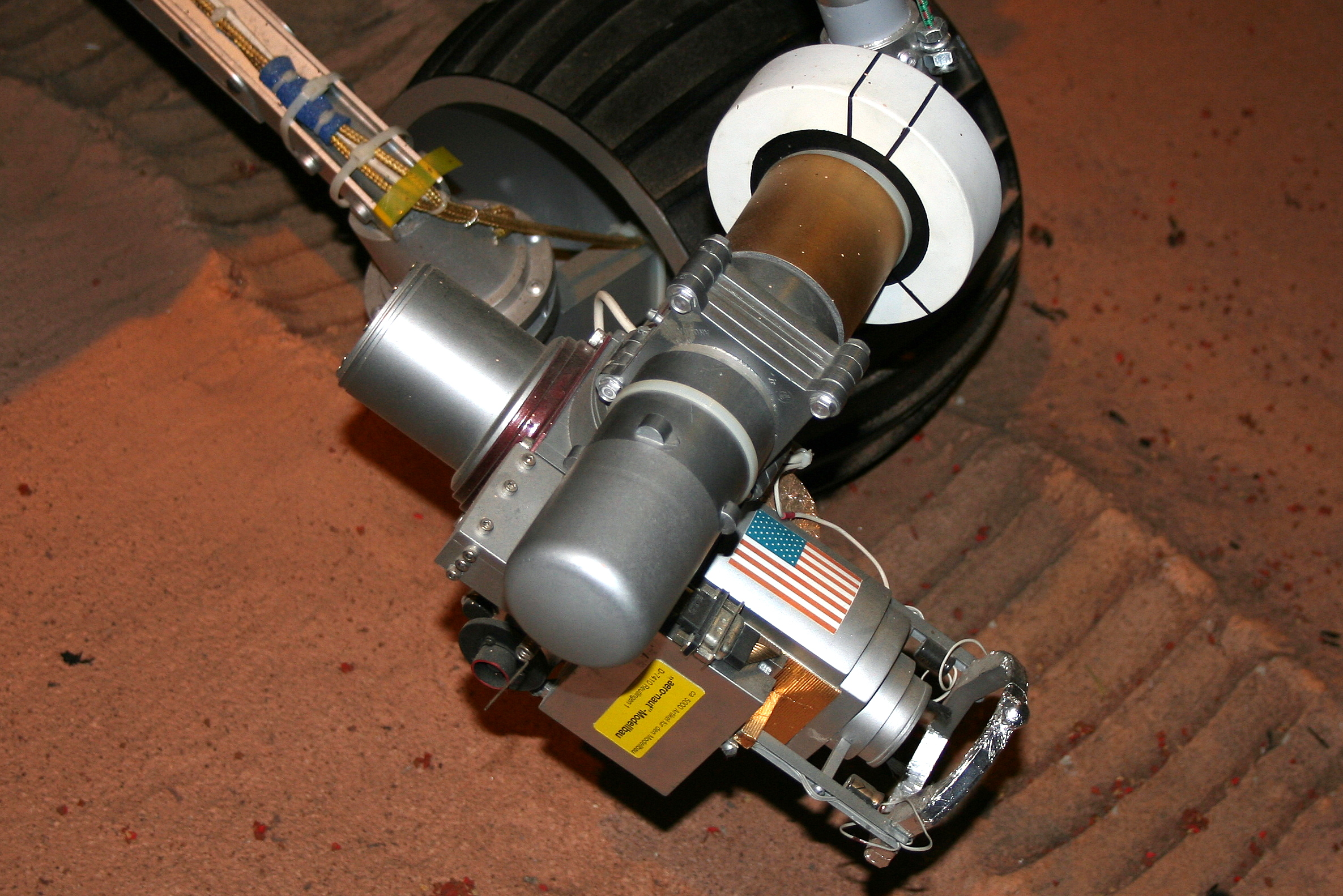 Rock Abrasion Tool on Mars Exploration Rovers, taken at full scale MER model at Virginia Air and Space Center